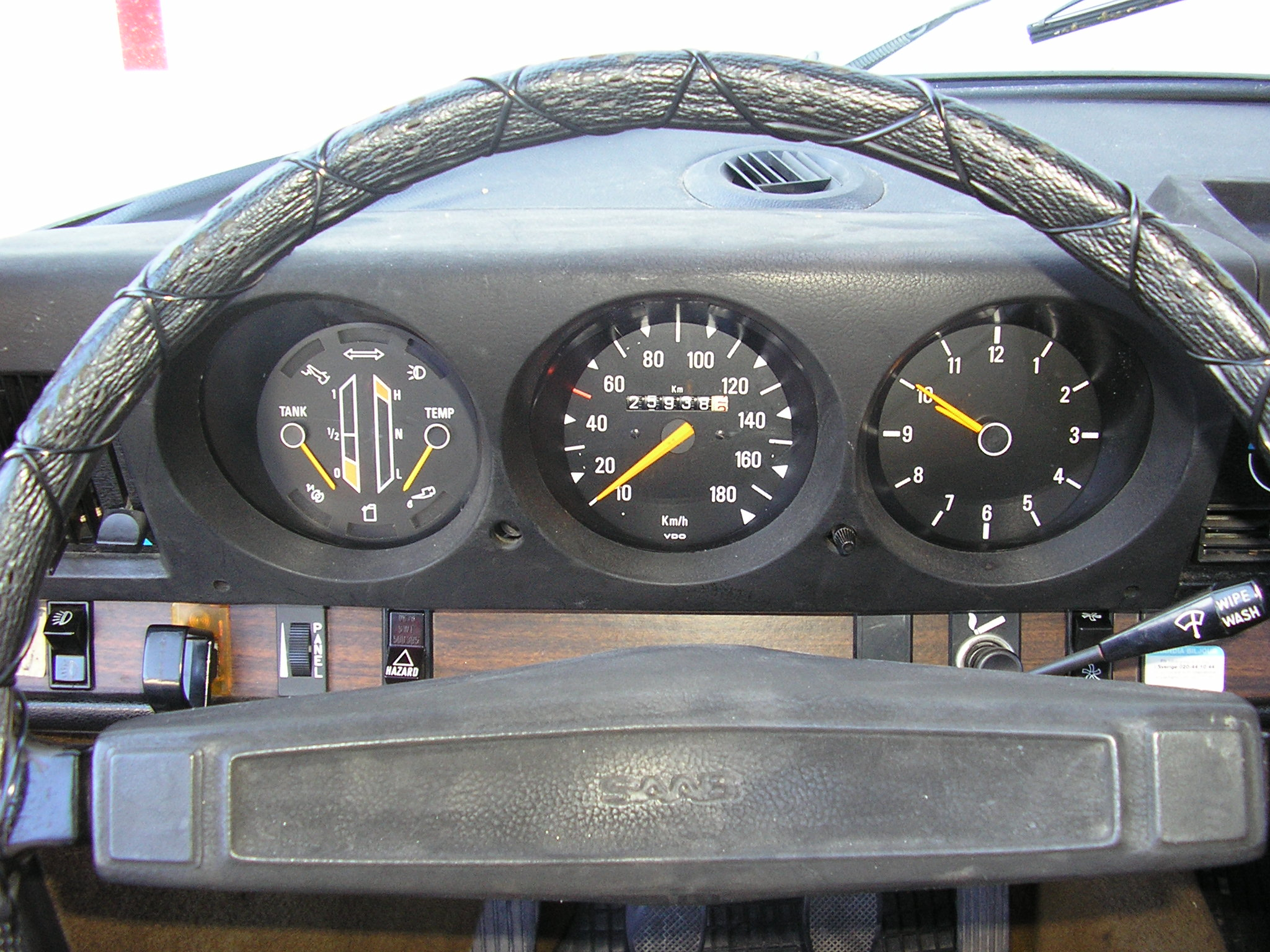 Interior in a 1973 SAAB 99L. Notice the rather odd rear leaning facia.